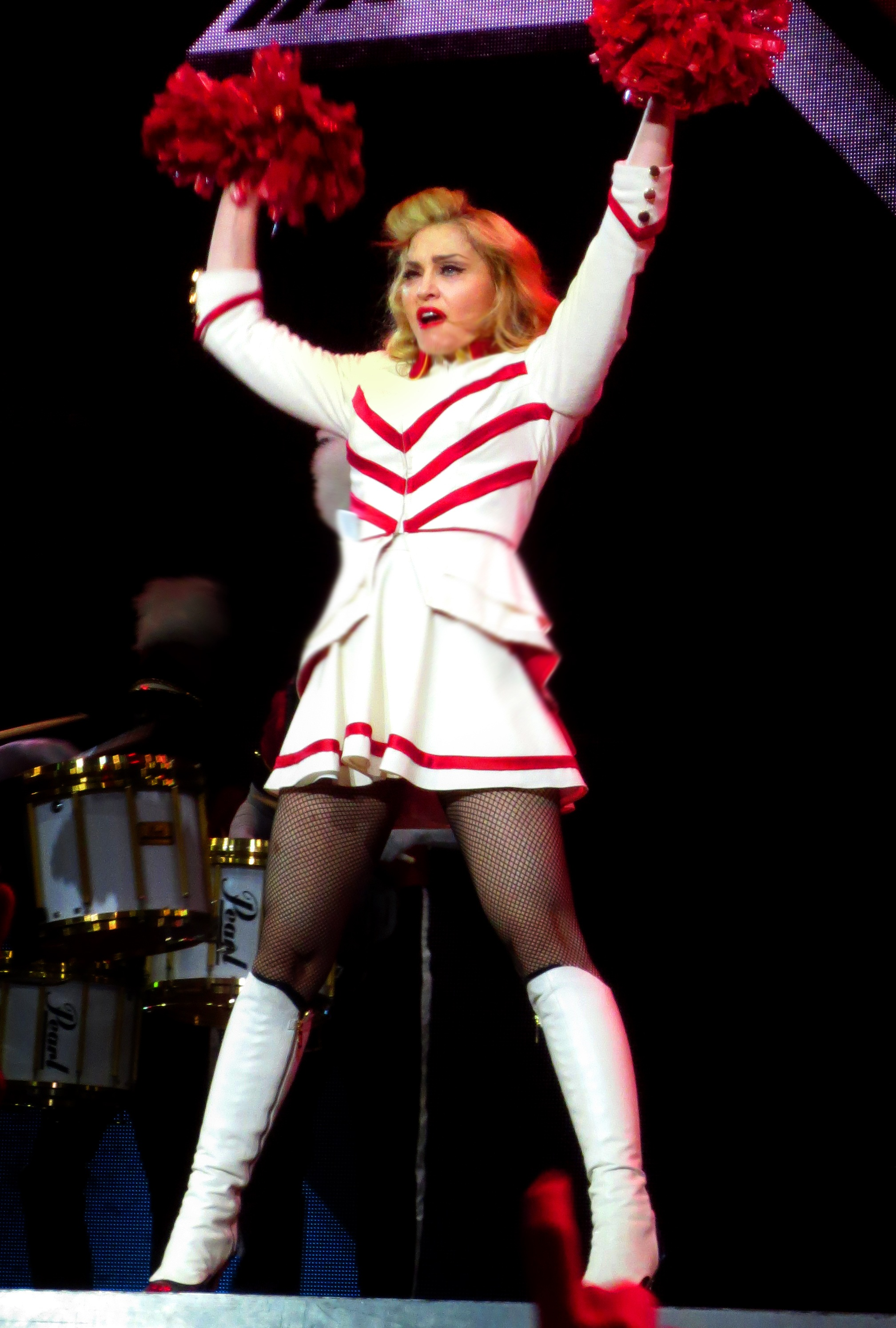 Madonna performing the song "Give Me All Your Luvin'" on the 2012 MDNA Tour